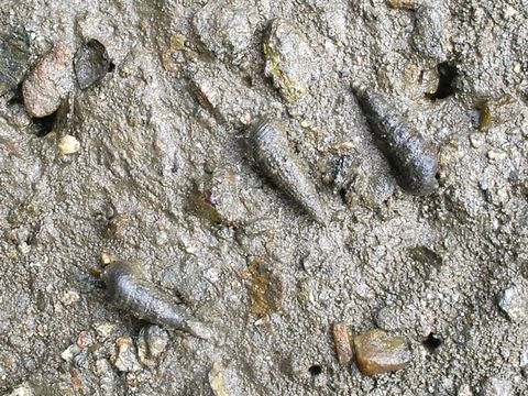 Cerithidea djadjariensis